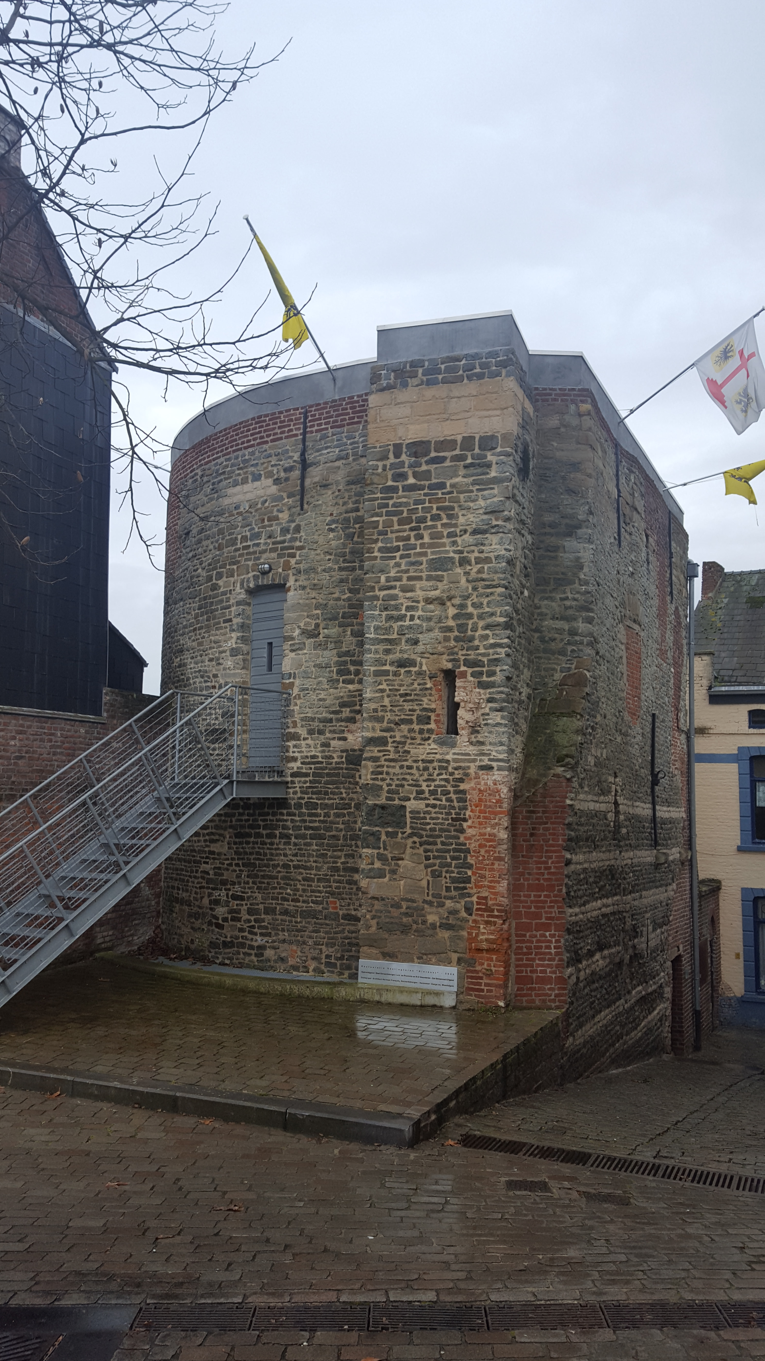 Tower Dierkost, Geraardsbergen, Belgium